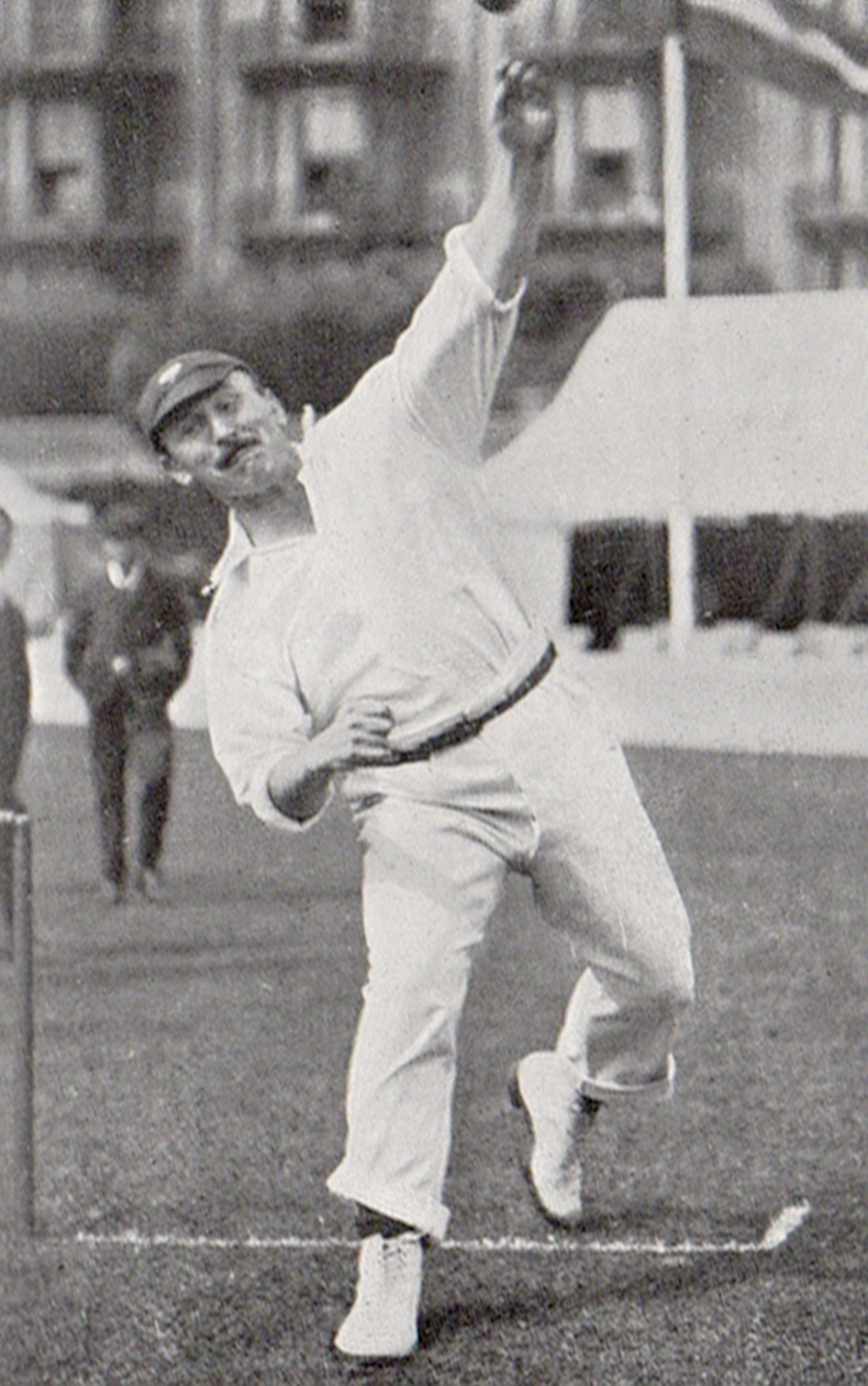 George Hirst bowling, photographed by George Beldam